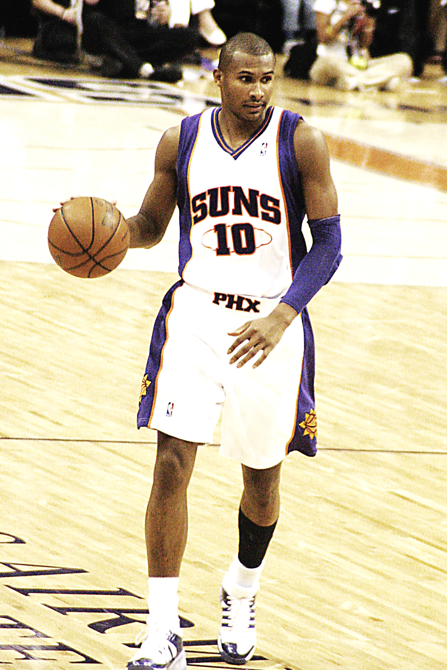 Leandro Barbosa playing with Phoenix Suns